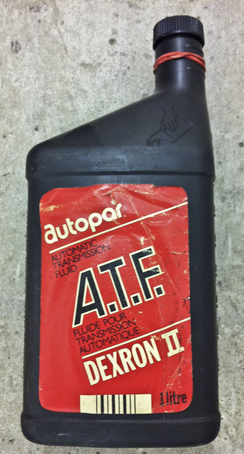 A bottle of automatic transmission fluid marketed by Chrysler Canada Ltd. under the "AutoPar" brand name, 1980s